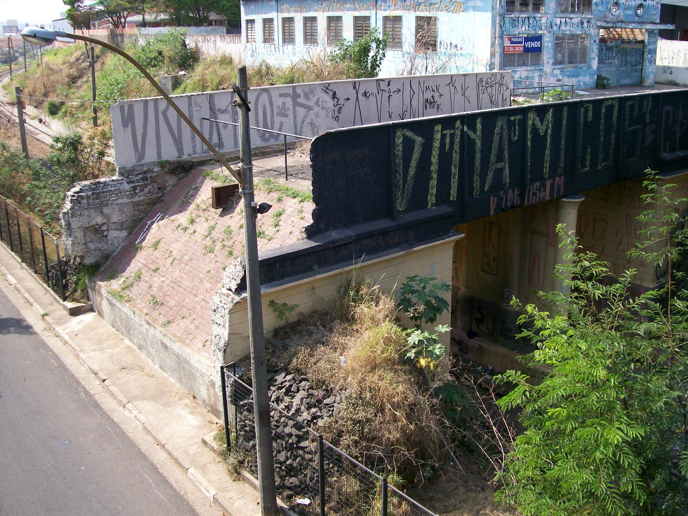 Little viaduct over the railway in Campinas, Brazil, vandalized with grafitti.